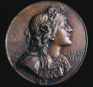 Medal